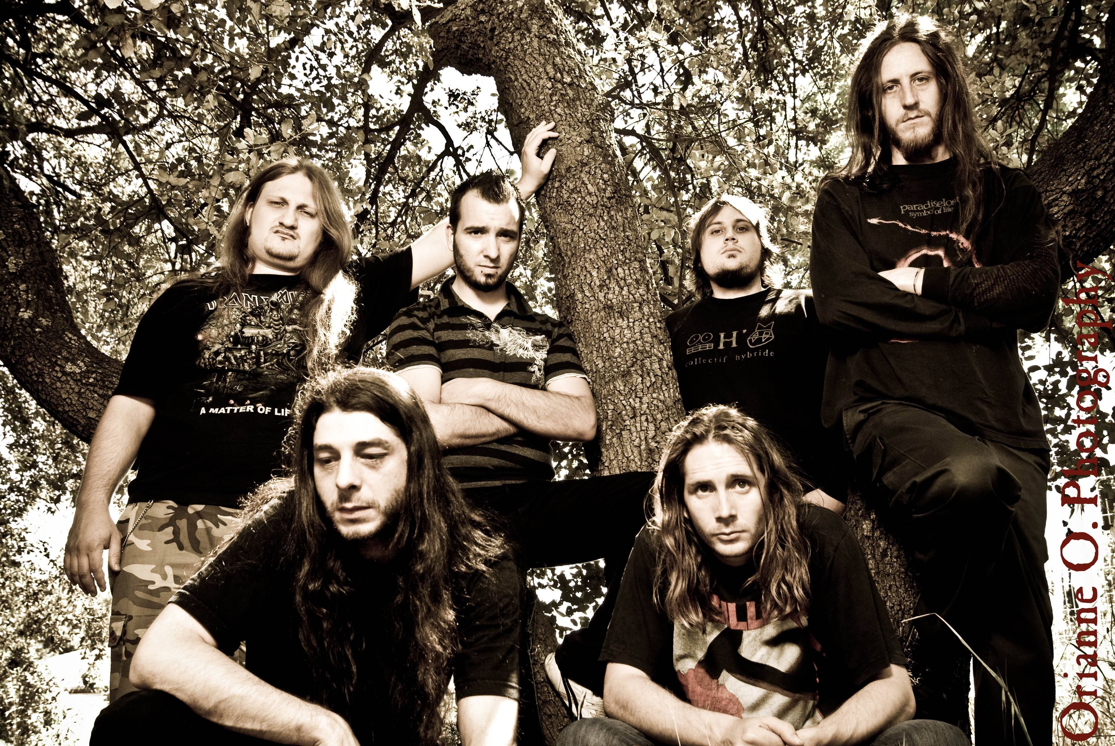 Mindlag Project pic